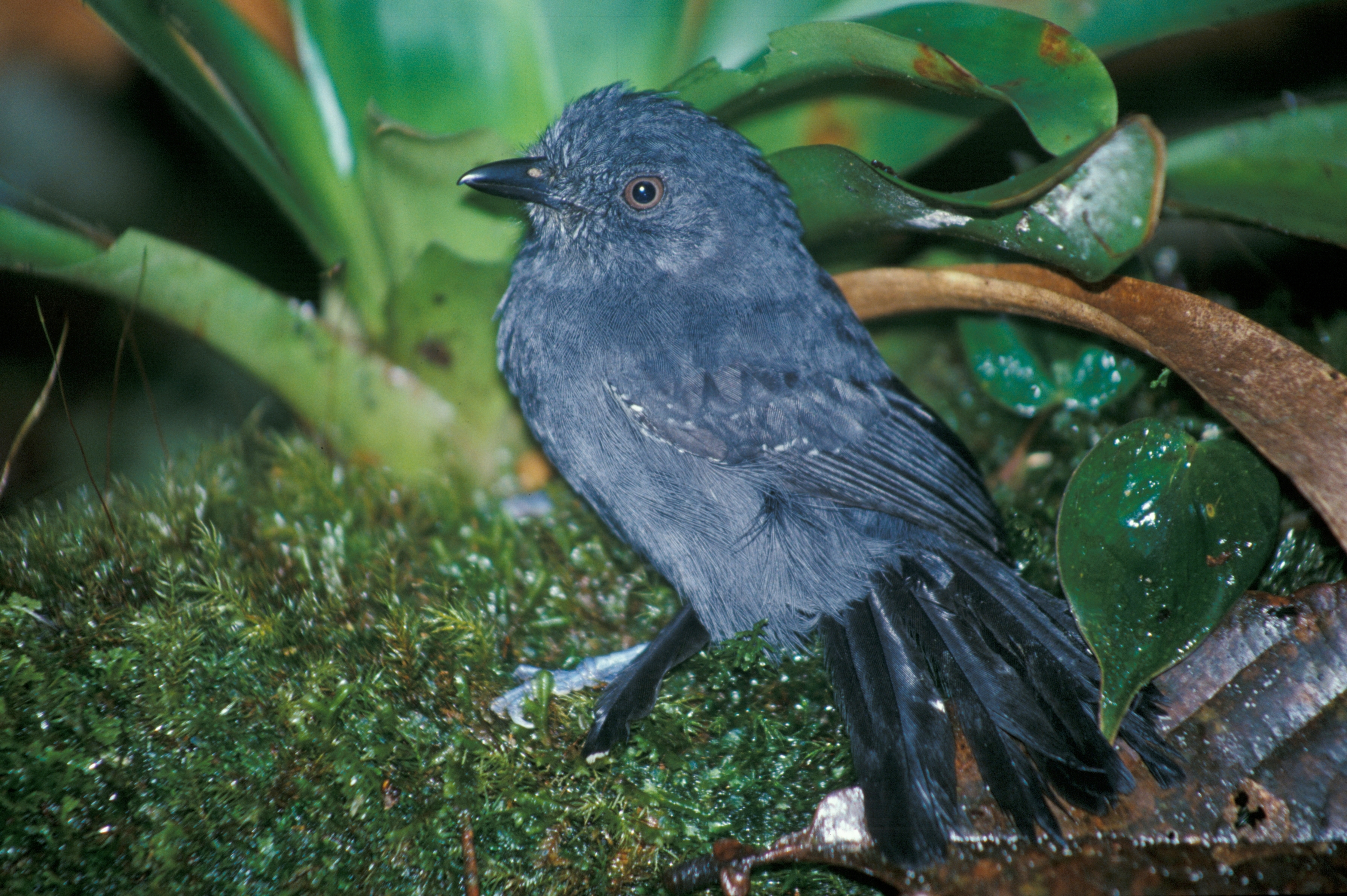 Uniform Antshrike (Thamnophilus unicolor) in Ecuador